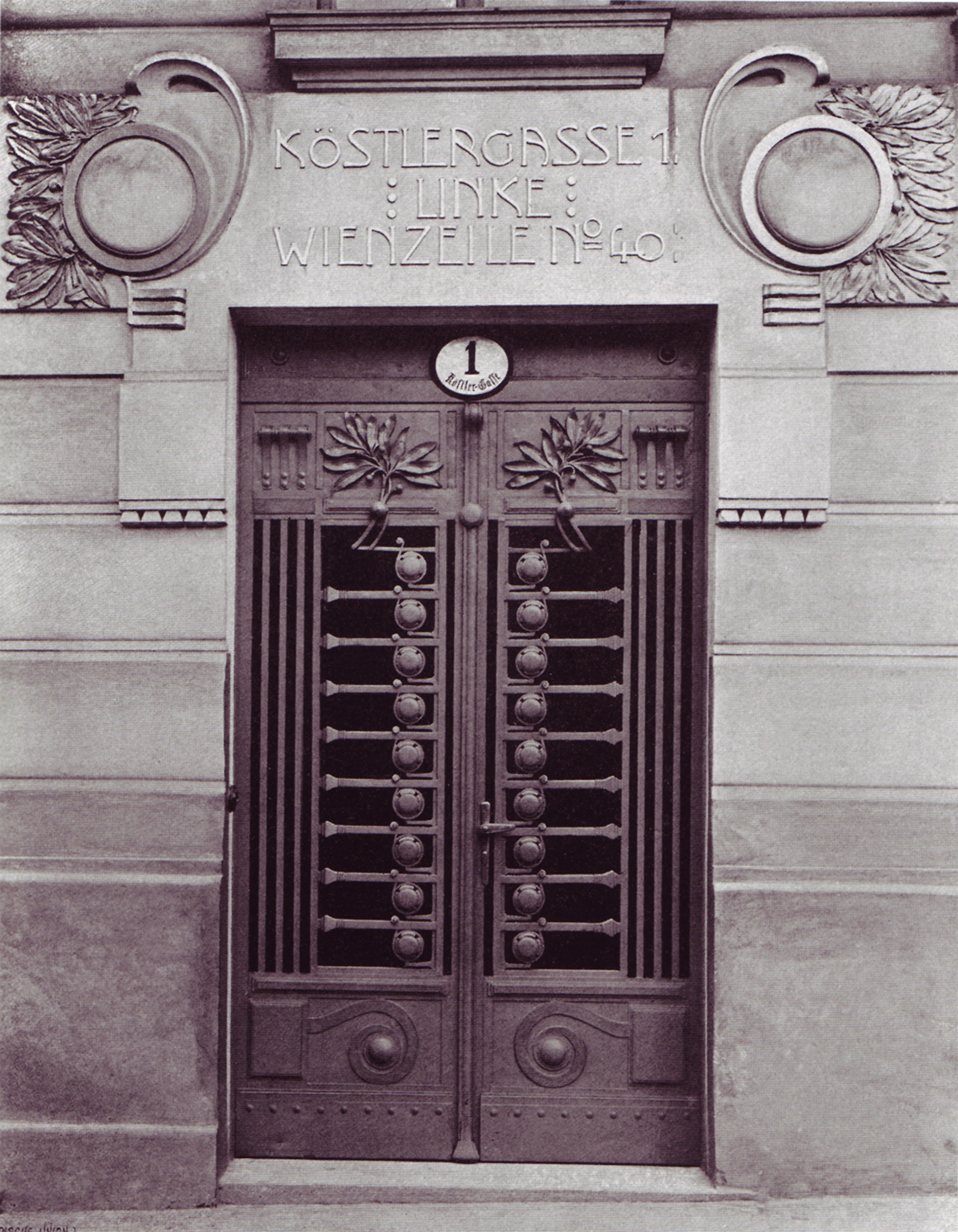 Entrance to the Birth-House of Wolfgang Paalen, Vienna, Köstlergasse 1